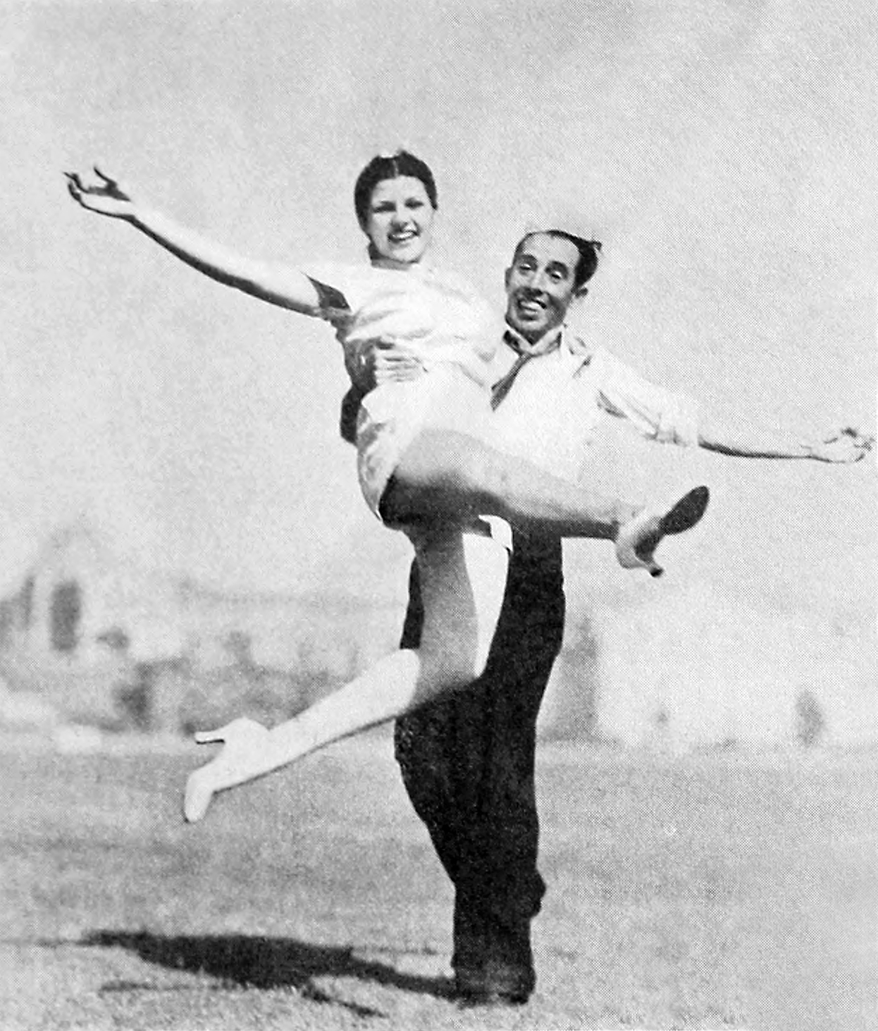 Photograph of Rita Cansino and Eduardo Cansino Caption: Left, Rita and Eduardo Cansino, notable exponents of our dances in North America and working with Fox.